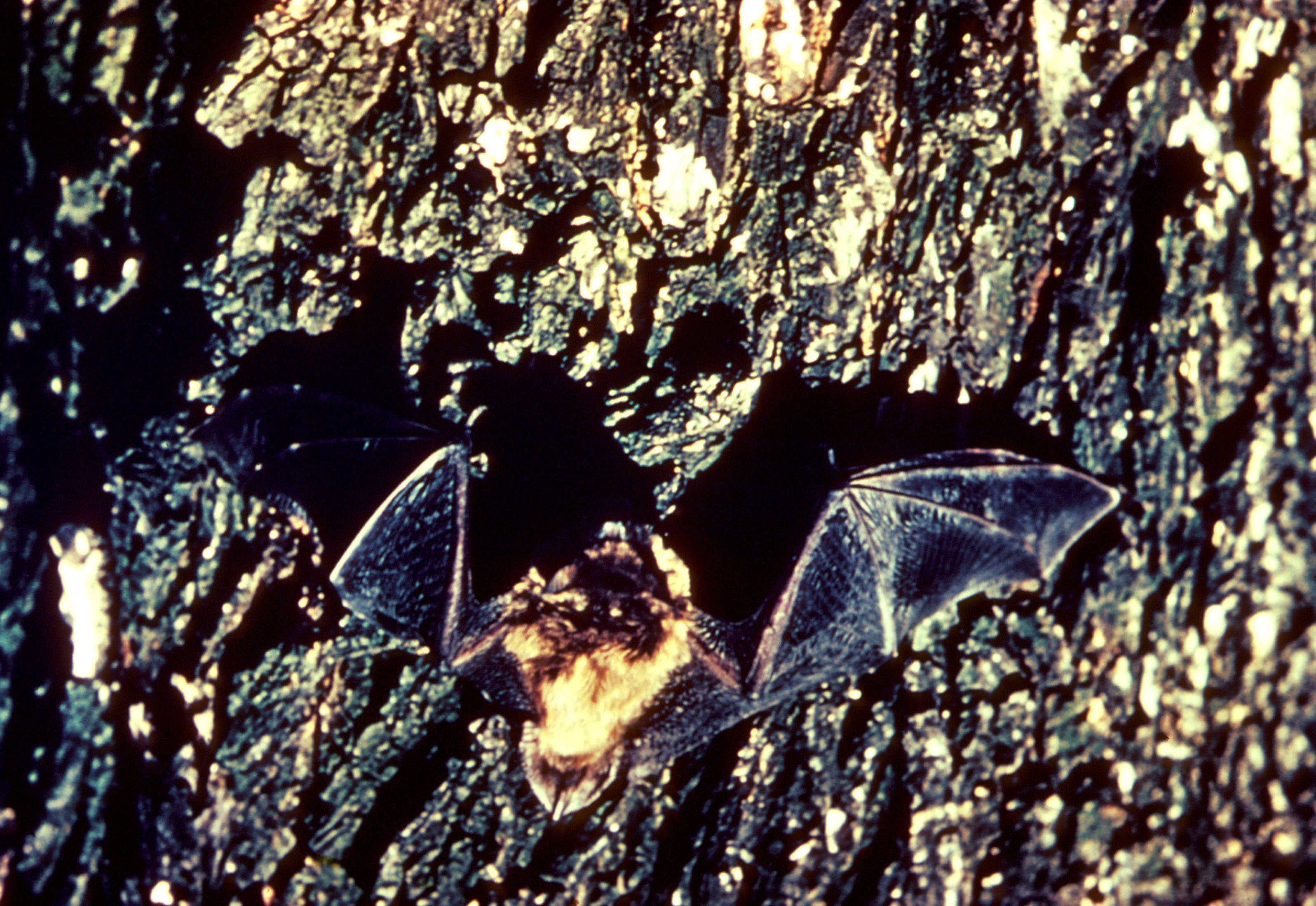 Little brown bat (Myotis lucifugus)